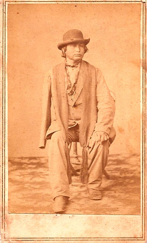 An 1867 photograph of Joseph James (Joe Jim), the interpreter for the Kaw Indians.